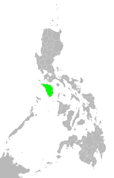 Distribution map of tamaraw (Bubalus mindorensis) which is found only in Mindoro File made from Image:BlankMap-Philippines.png with only Mindoro colored. I made this from a public domain image so it is fair that I release this as public domain as well